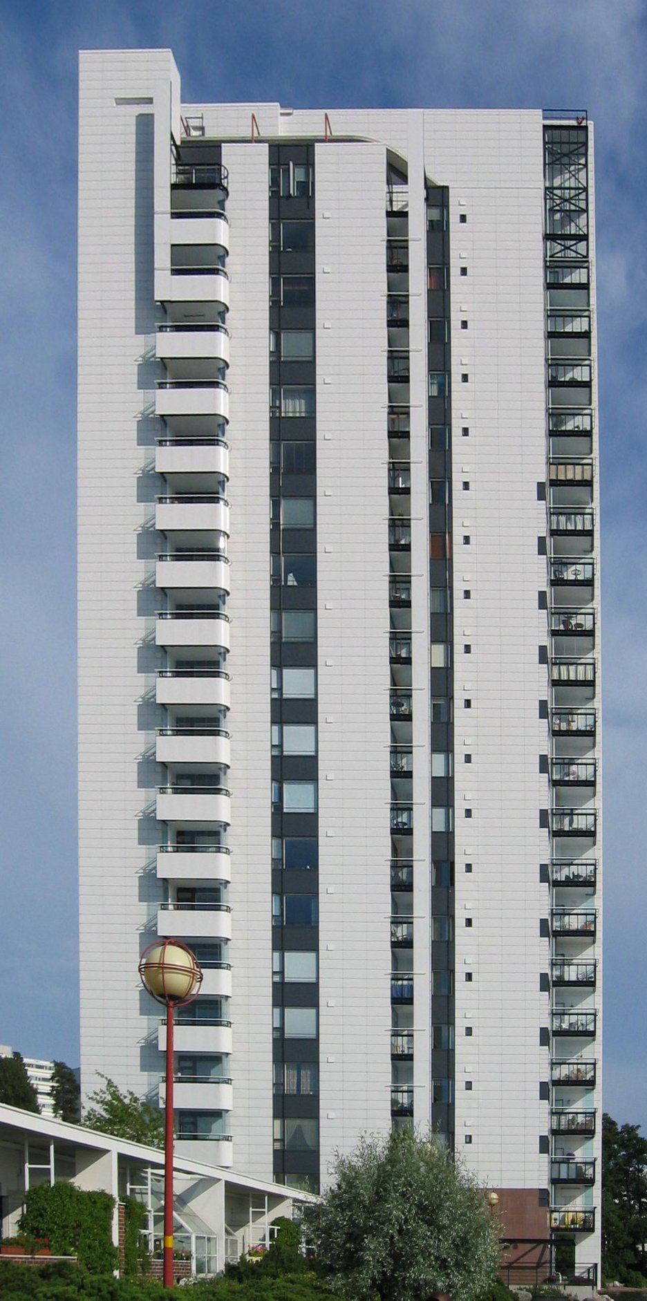 Meritorni, located in Espoo Finland, is the highest apartment building in Finland.